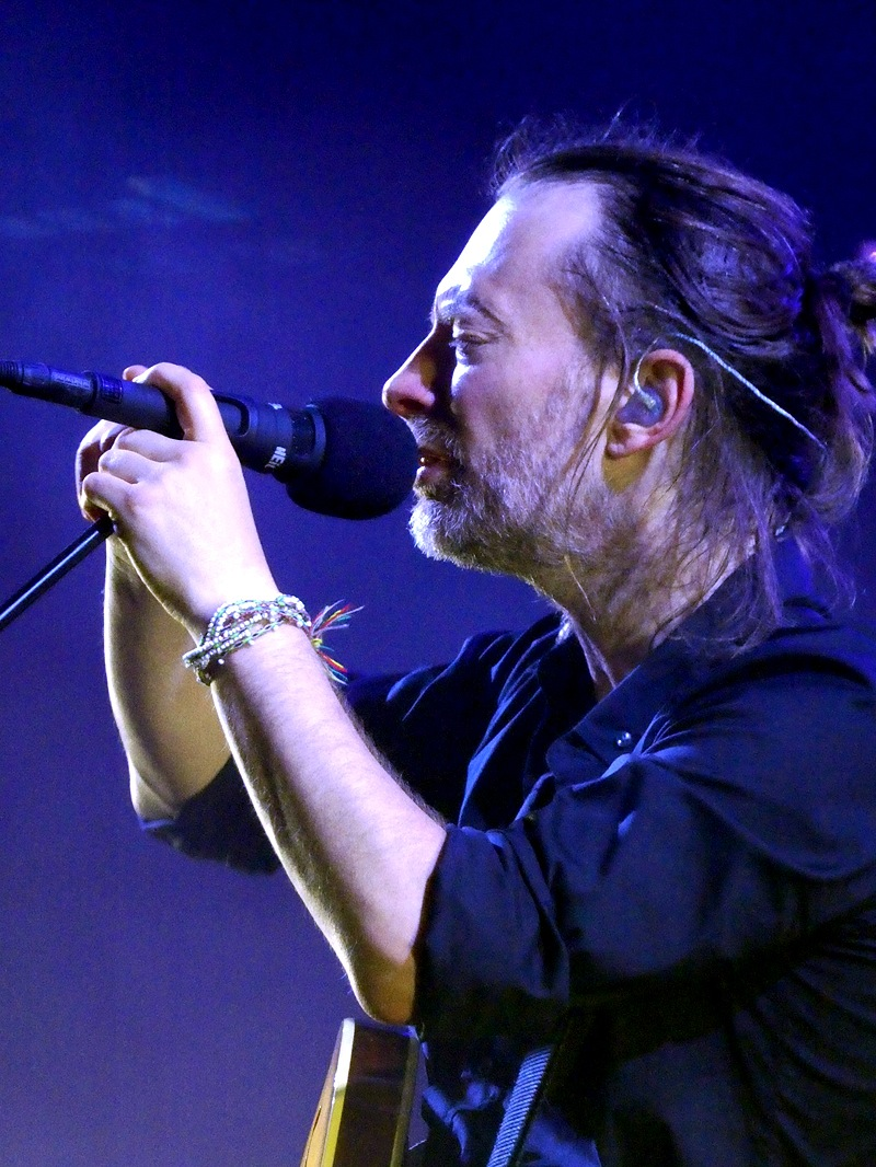 Thom Yorke of Radiohead taken in Paris (2016)